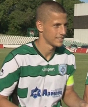 Bulgarian footballer Martin Minchev